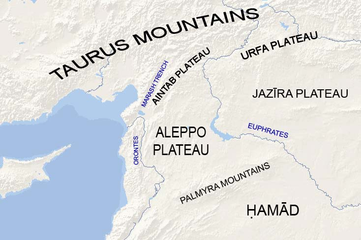 Plateaus of the Syria. Created by Hani Deek.